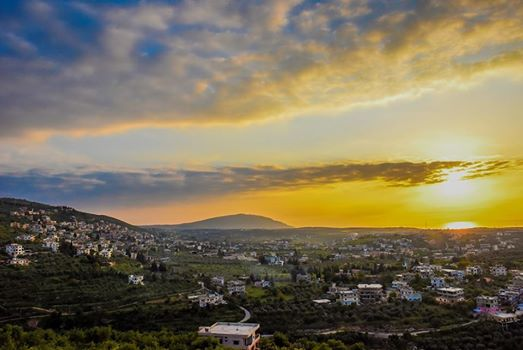 بلدة برقايل